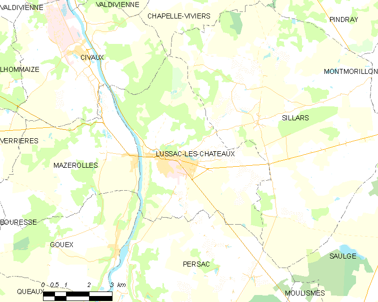 Map of French municipality Lussac-les-Châteaux